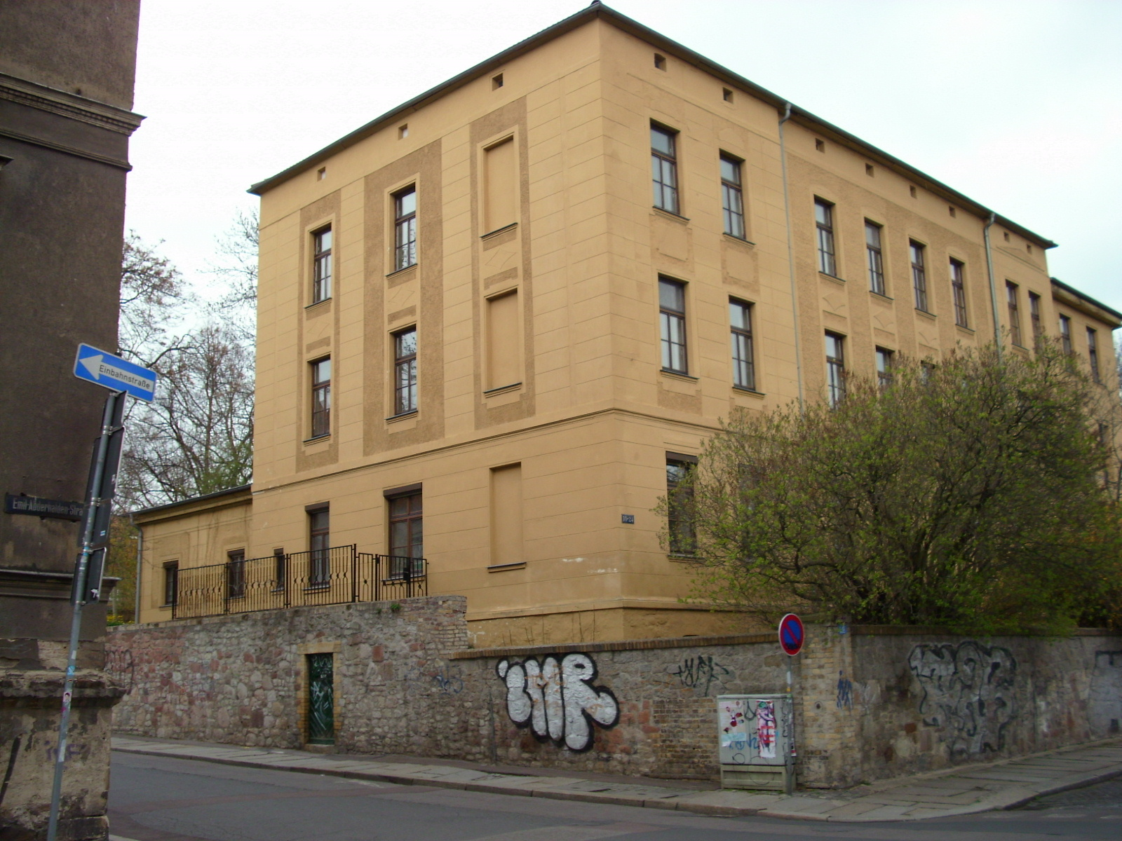 Building of the Schlesische Konvikt Halle (Emil-Abderhalden-Straße 10, 06108 Halle).